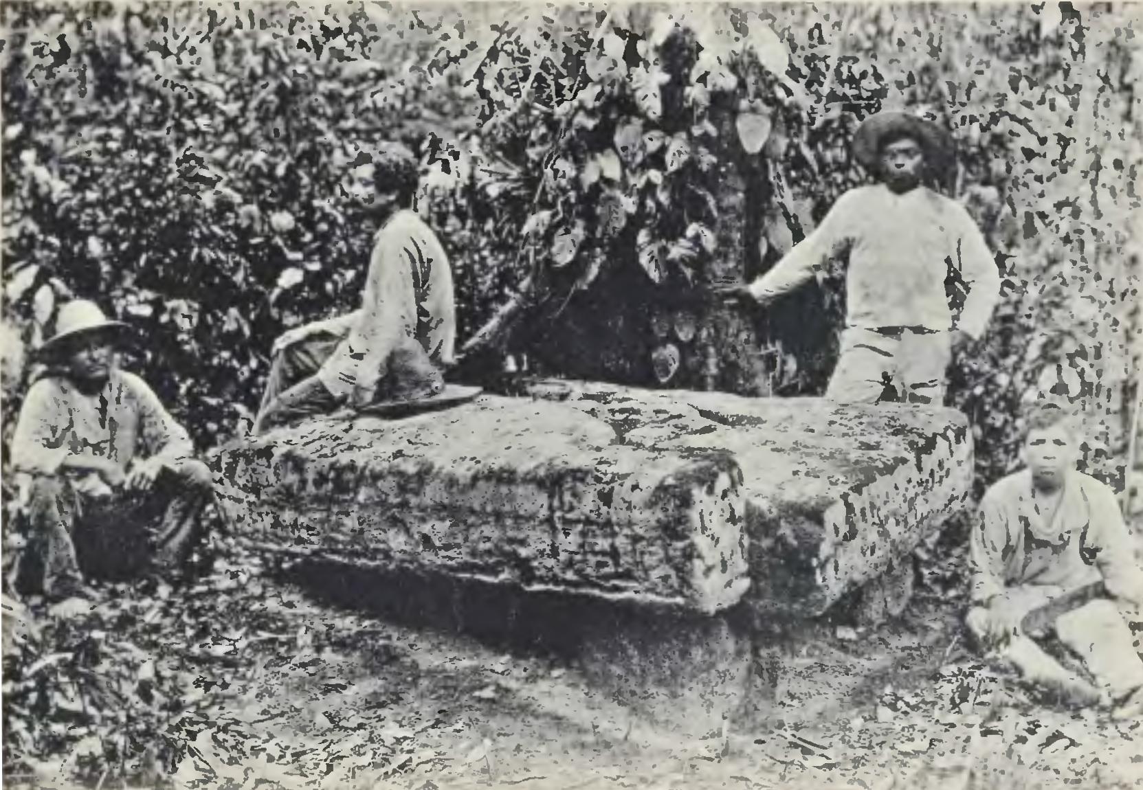 Plate VII no 2 from Researches in the Central Portion of the Usumatsintla Valley, published in 1901. Piedras Negras: Altar 3.